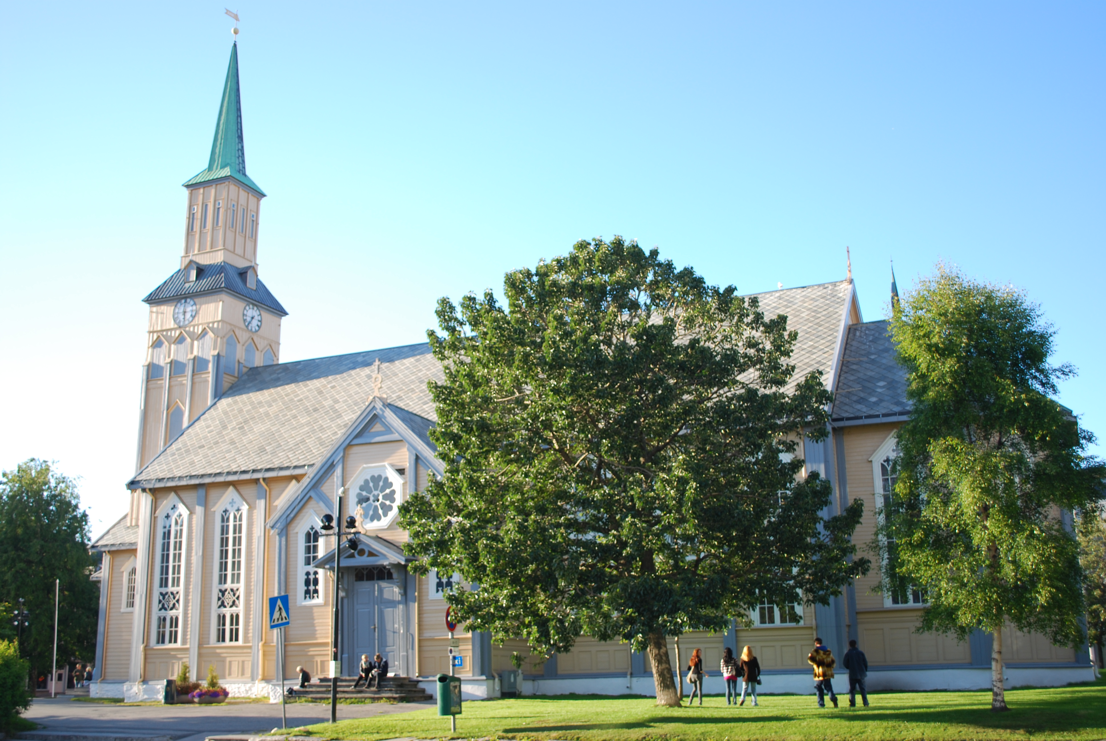 Cathedral of Tromsø, seen from the south.